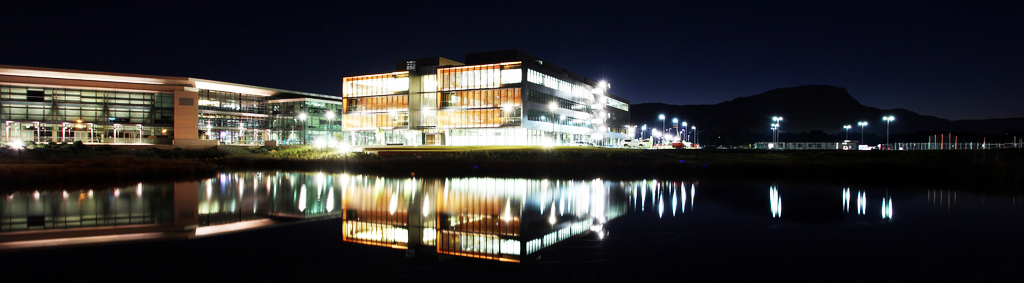 The Innovation Campus at night